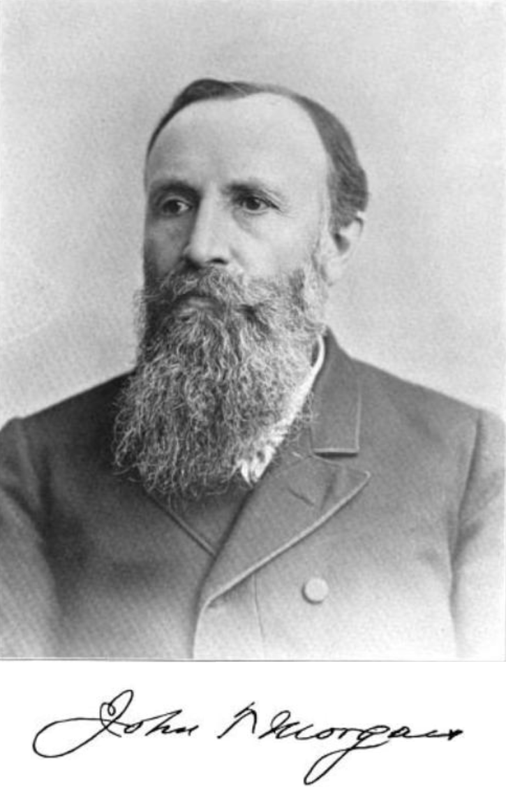 Judge John T. Morgan of the Idaho Supreme Court, with signature.